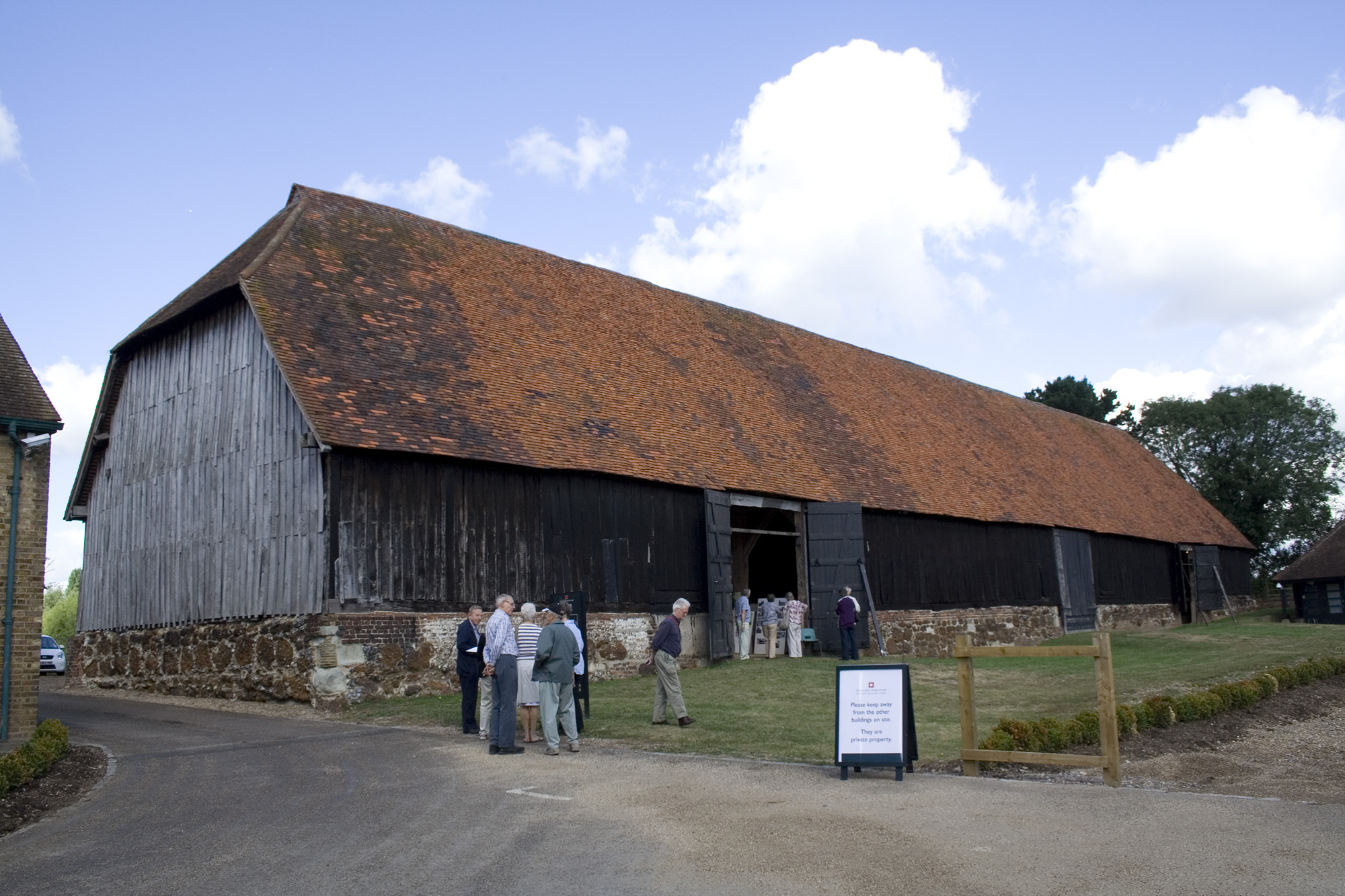 View of the east side of the Harmondsworth Great Barn, showing the entrance doors